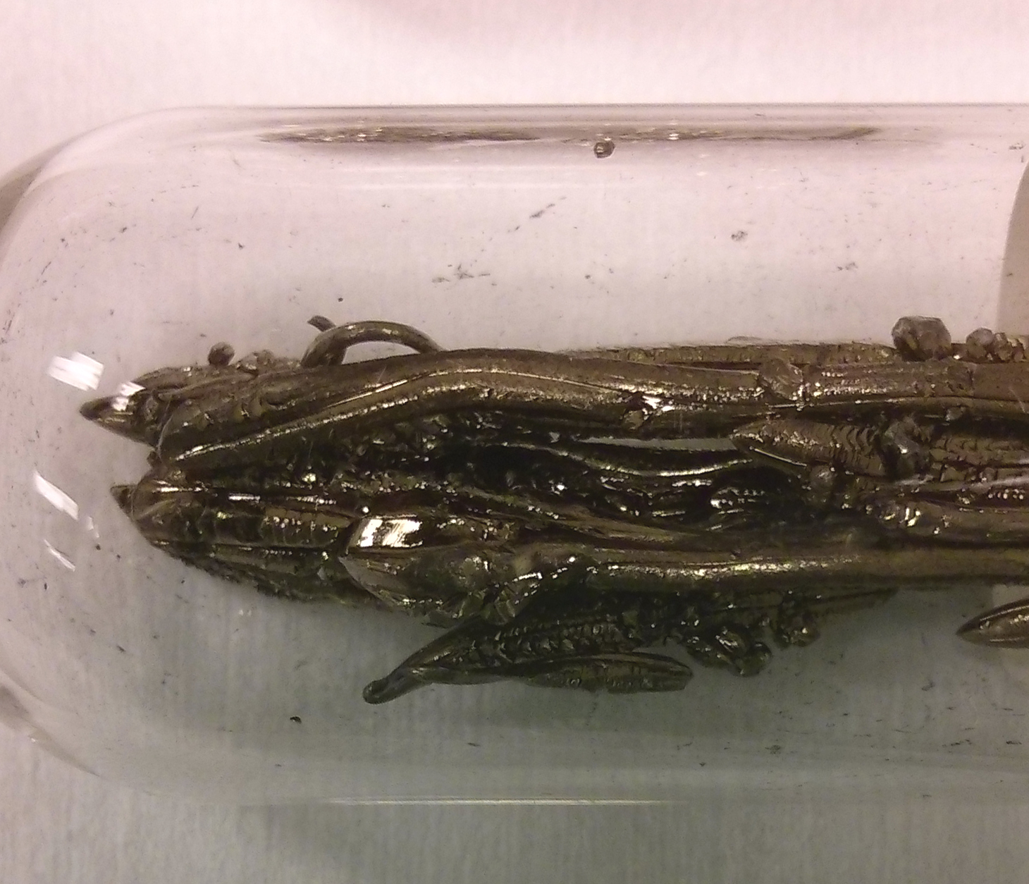 Dendritic Barium in a glass vial full of Argon gas. The high purity (99.99%) is achieved by distillation.